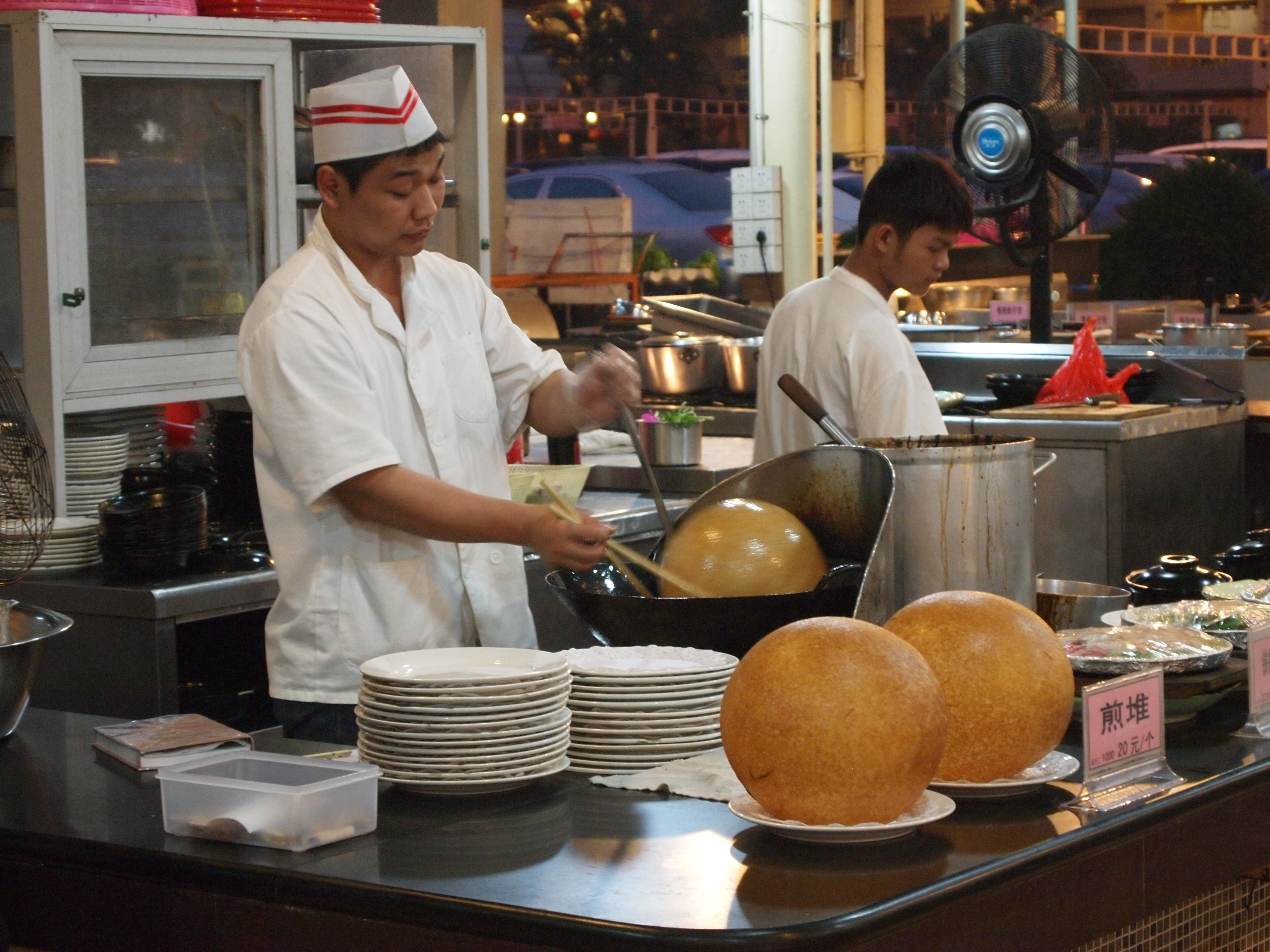 A chef fries a jin deui in Guangzhou, China